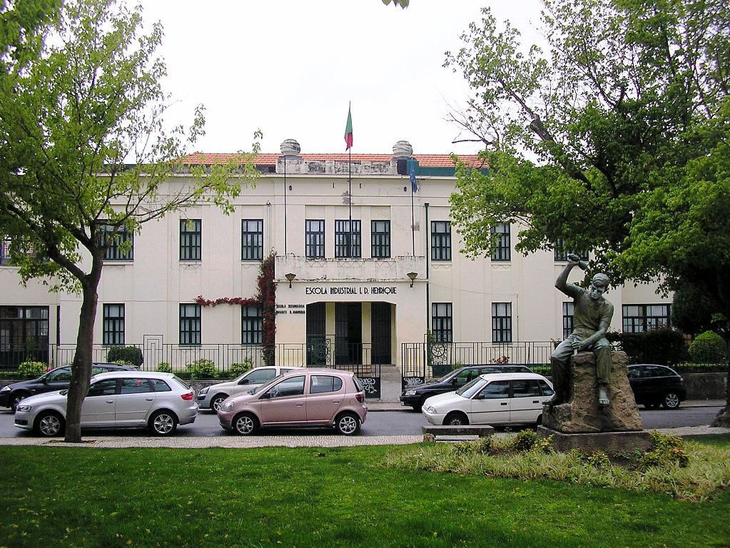 "Infante D. Henrique" secondary school in Porto city, Portugal